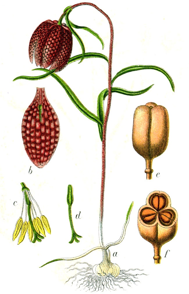 Fritillaria meleagris L. Original Caption Schachblume, Fritillaria meleagris